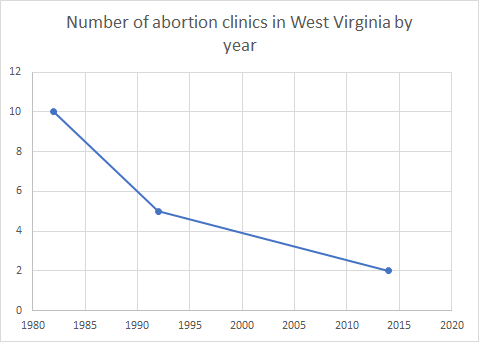 Number of abortion clinics in West Virginia by year. Data is from articles linked at